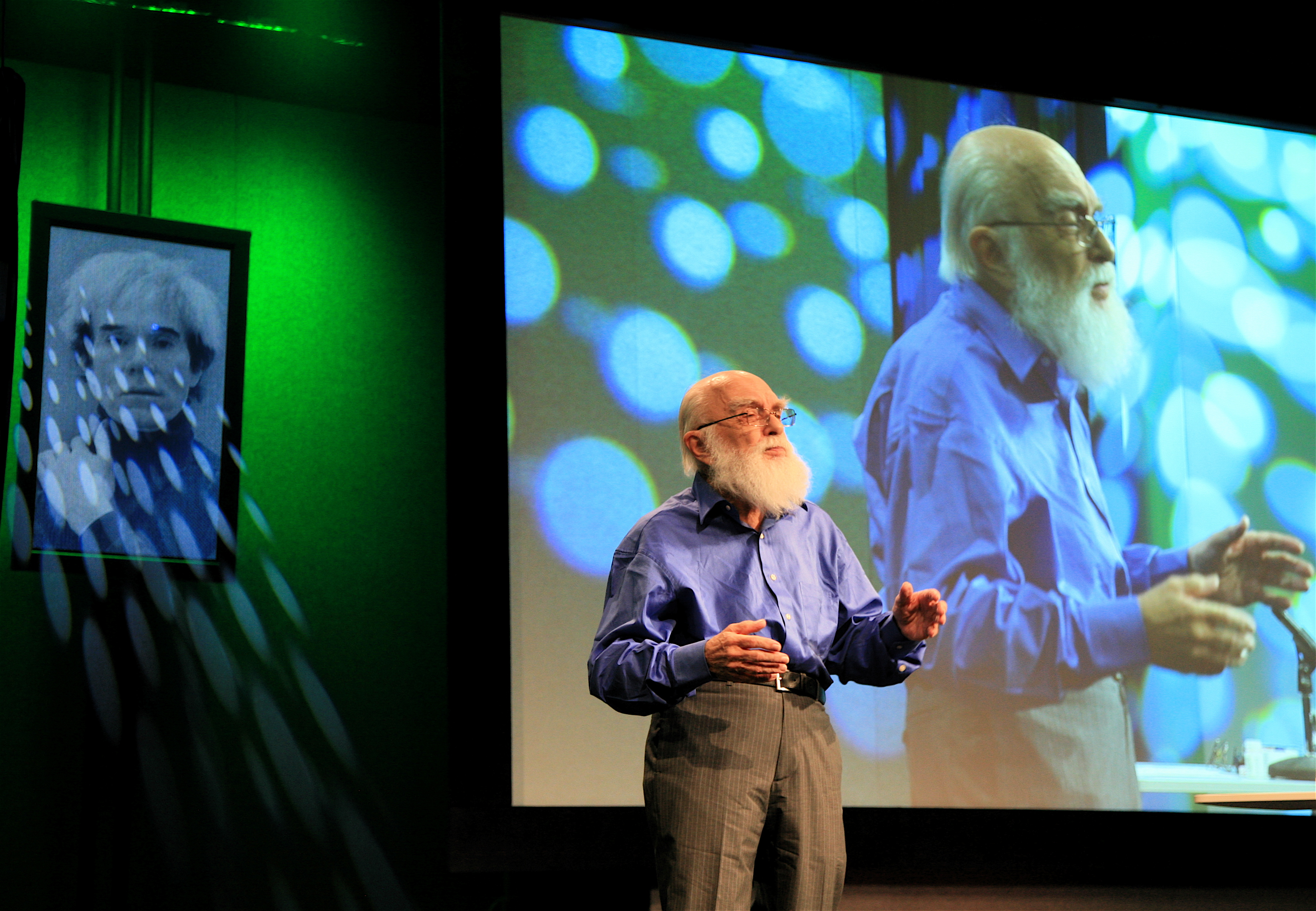 James Randi waxes intellectual: “A billion dollars are spent each year on psychics. Sylvia Browne charges $700 for a 20-minute phone call. She doesn’t even see you. And you will have to wait two years, because she is booked that far out.” “How come when you pay to speak to a dead relative, they never call back from hell?” He reminded me of the sobering statistic from my blog that one out of every three U.S. adults believes in ghosts and communication with the dead. has a standing million dollar prize to anyone who can prove, in a controlled setting, that they have supernatural powers.